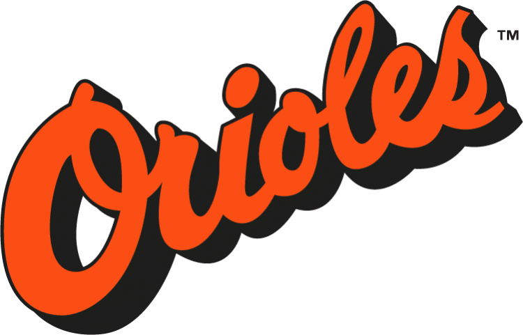 The wordmark for the Baltimore Orioles baseball team from 1988 to 1994